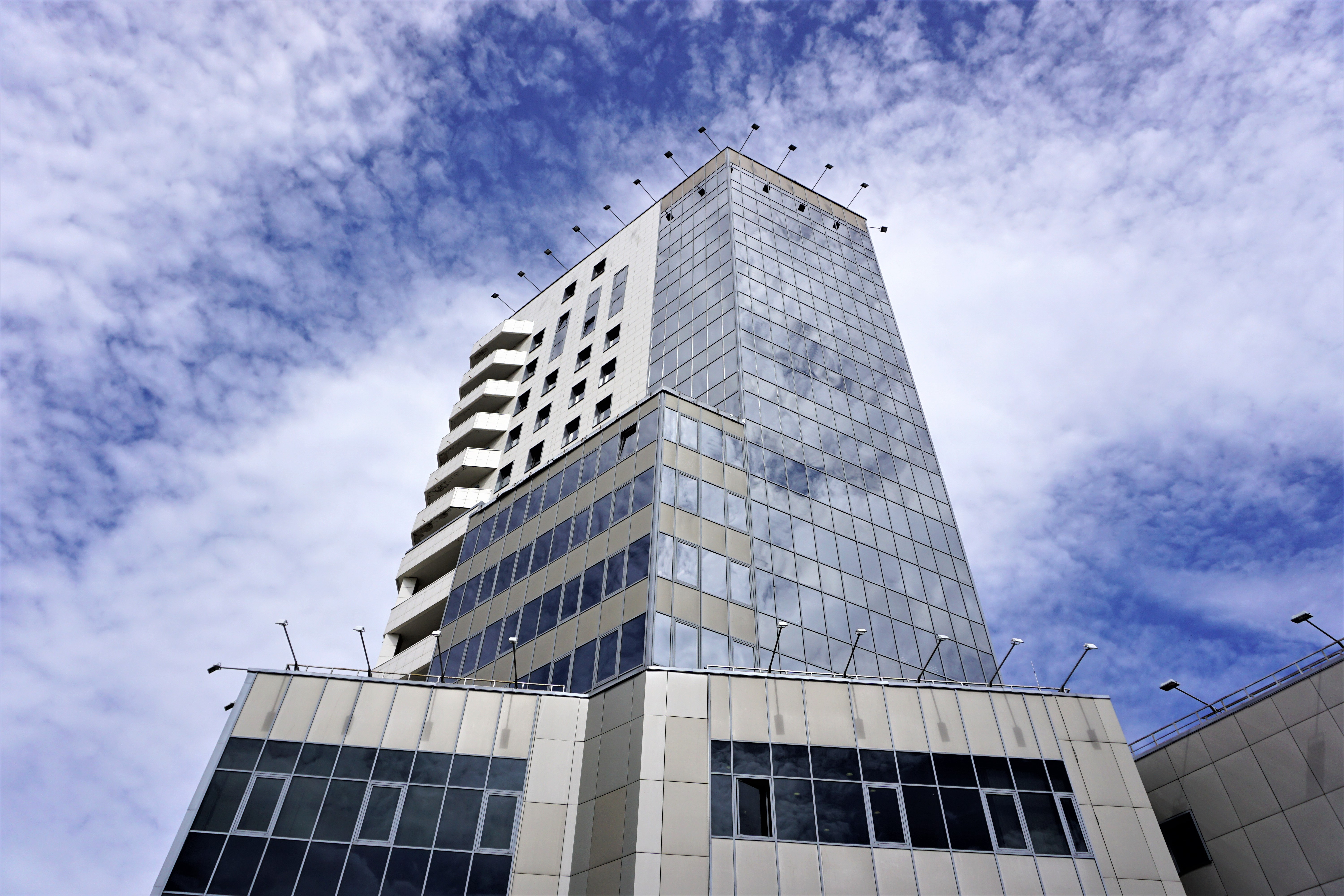 офис в России, город Омск